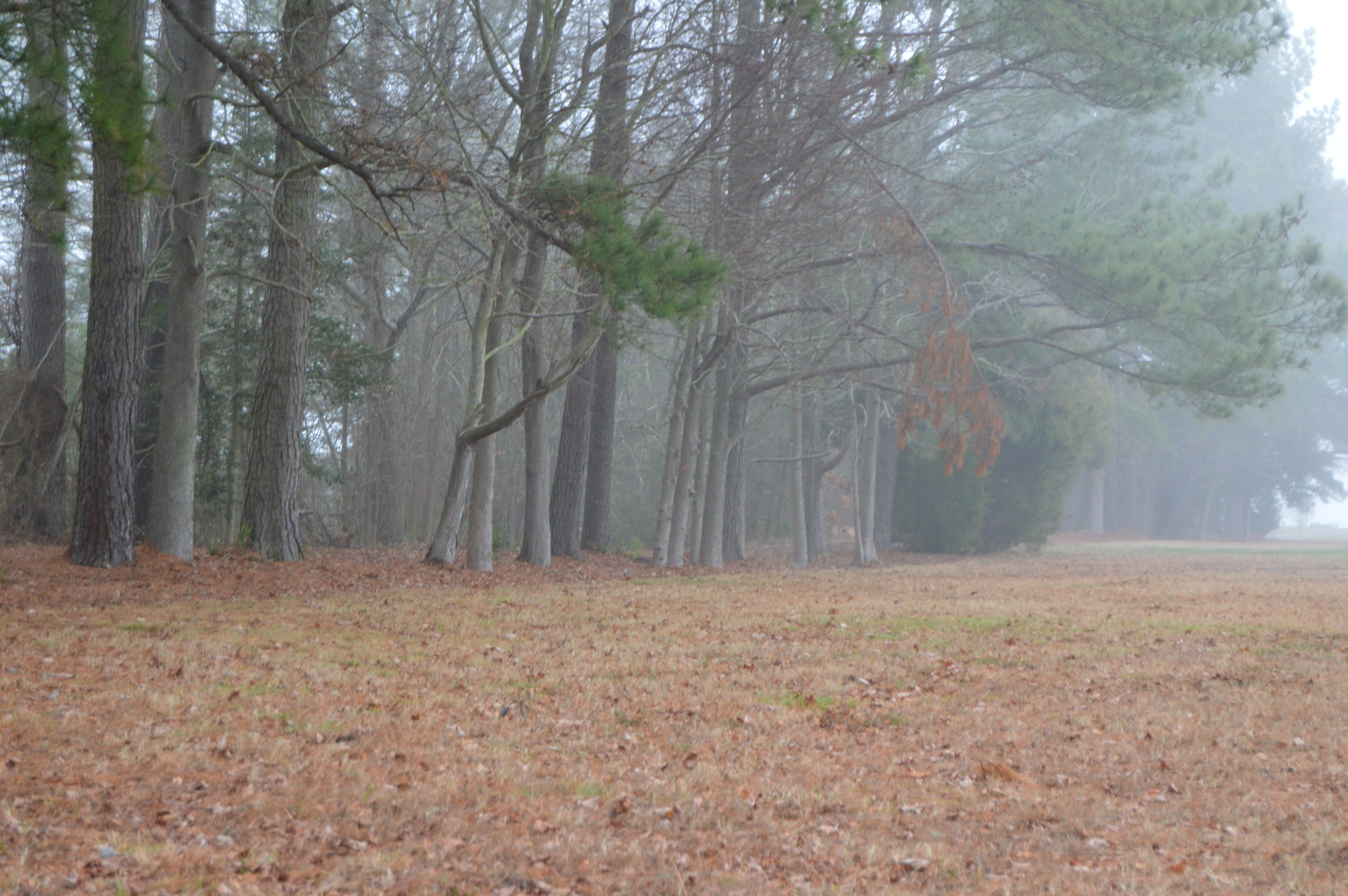 Overview of the site of Fort Cricket Hill, seen looking northward from Mill Point Road just east of the Gwynn's Island bridge in Mathews County, Virginia, United States. The fort was a Virginian artillery emplacement during the American Revolution. The fort site is listed on the National Register of Historic Places.